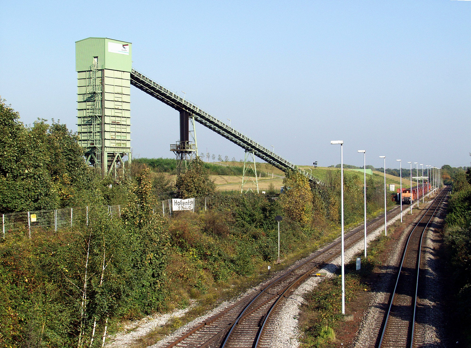 Coal mine "Pattberg" at Moers, Germany